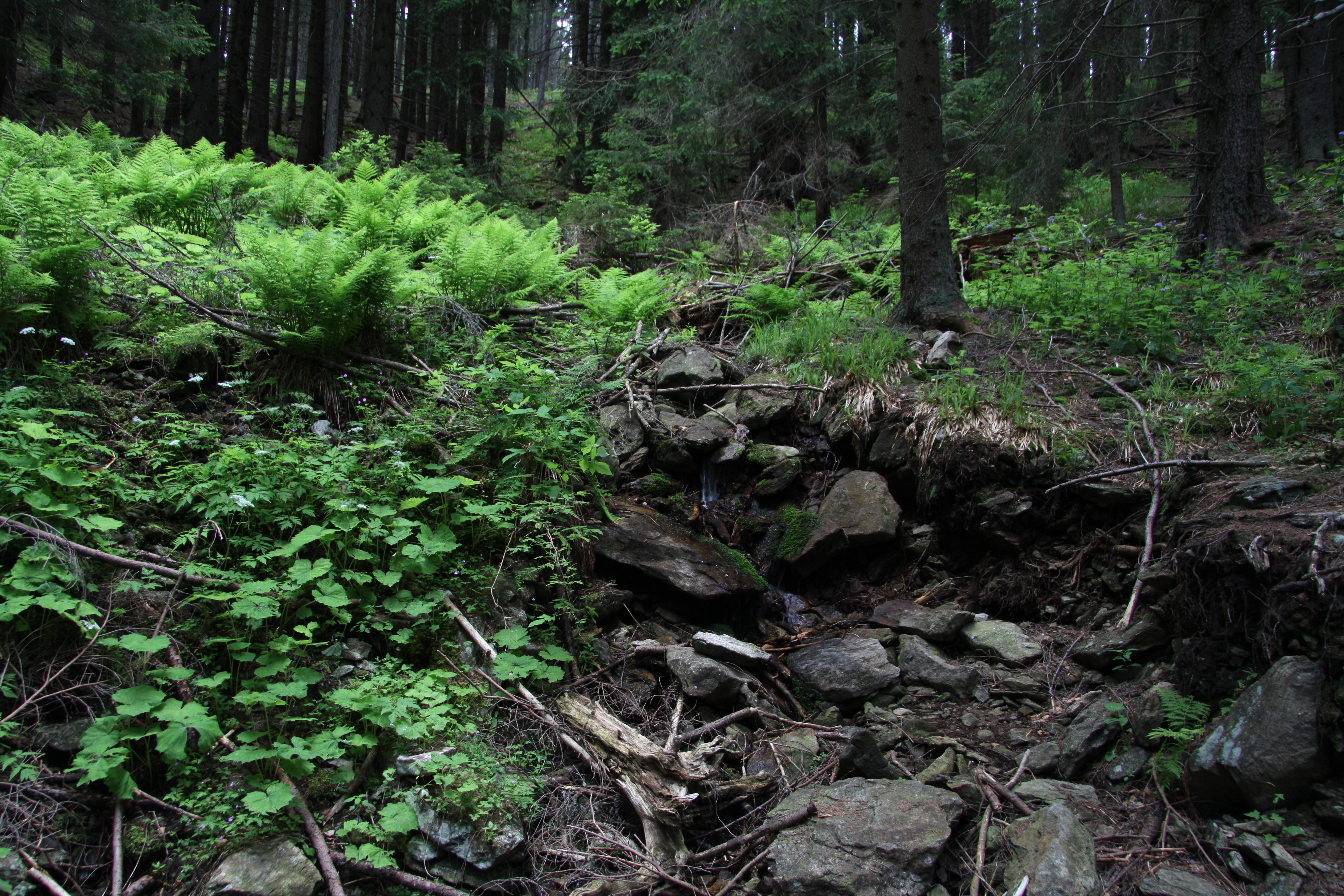 National nature reserve Boubínský prales during NS Boubínský prales trail, Prachatice District, Czech Republic